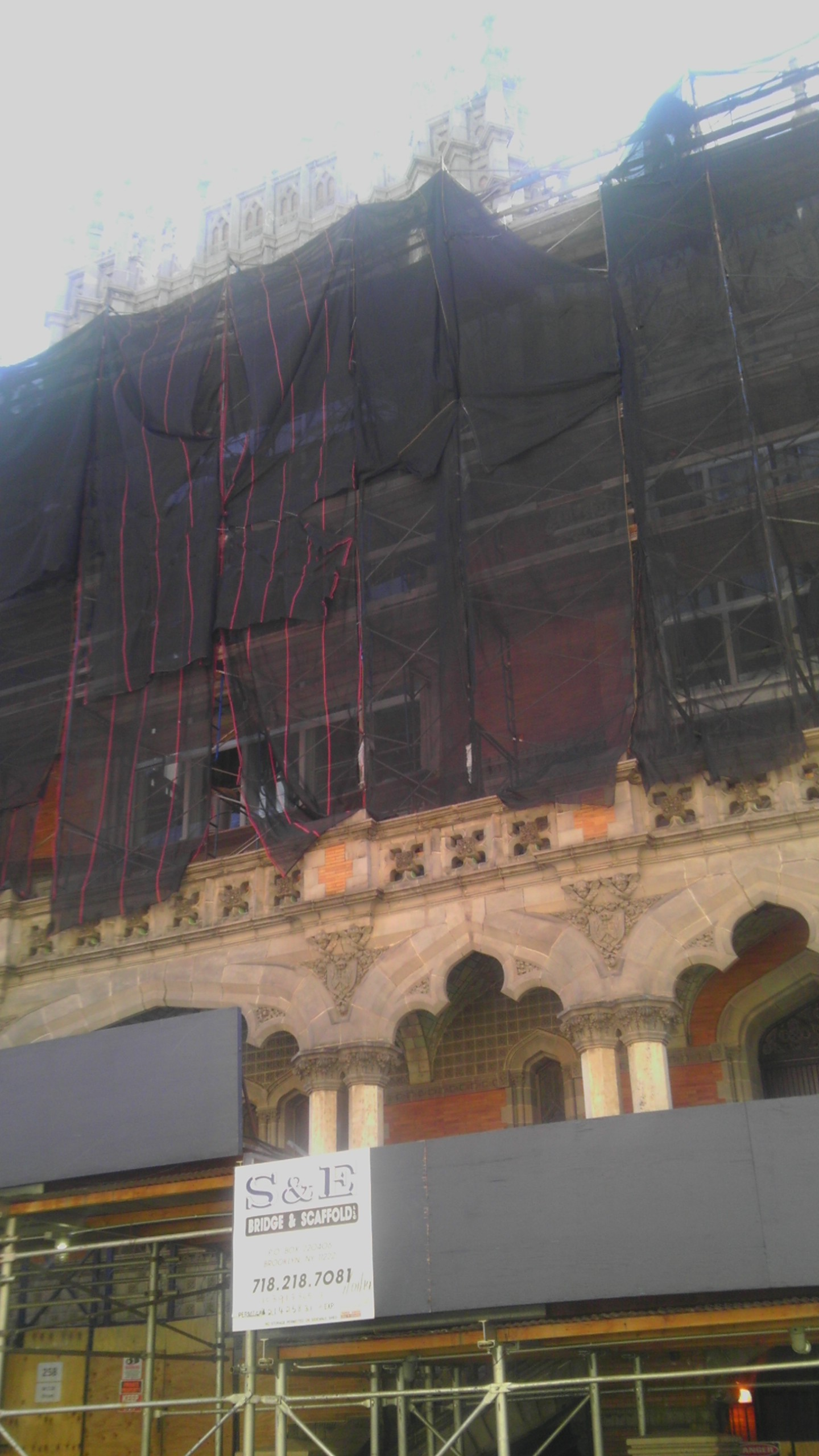 Looking south across 118th Street at Saint Thomas the Apostle church in Harlem on a sunny afternoon.